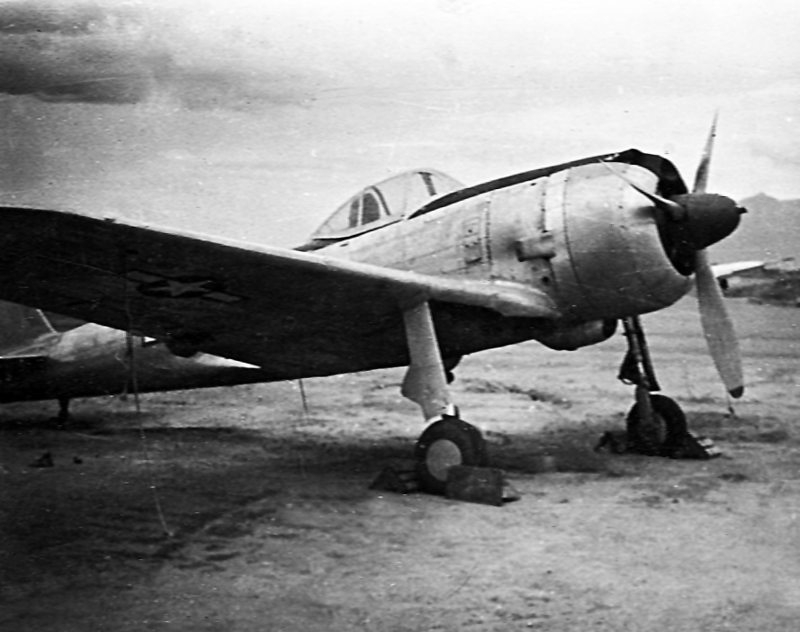 A captured Japanese Nakajima Ki-43 Hayabusa (Allied code name "Oscar") fighter at Clark Field, Luzon (Philippines), in 1945.